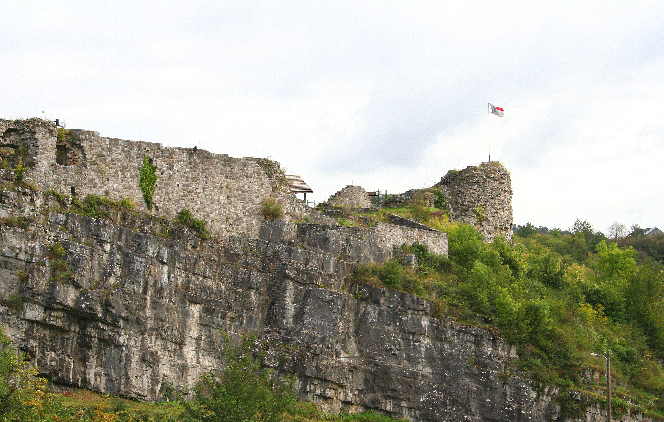 Moha (Belgium), the castle ruins (XIth century.